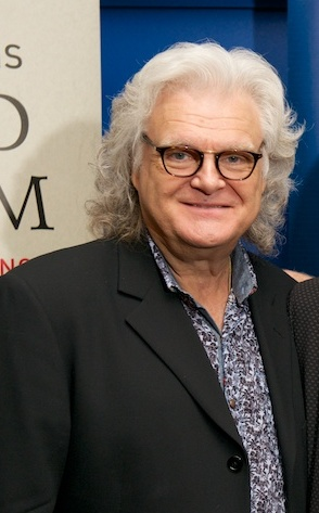 Ricky Skaggs at the Festival of Faiths in May 2016.